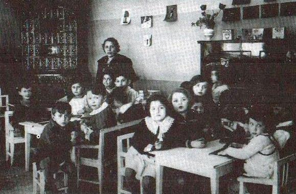 Jewish kindergarden in Zagreb 1926